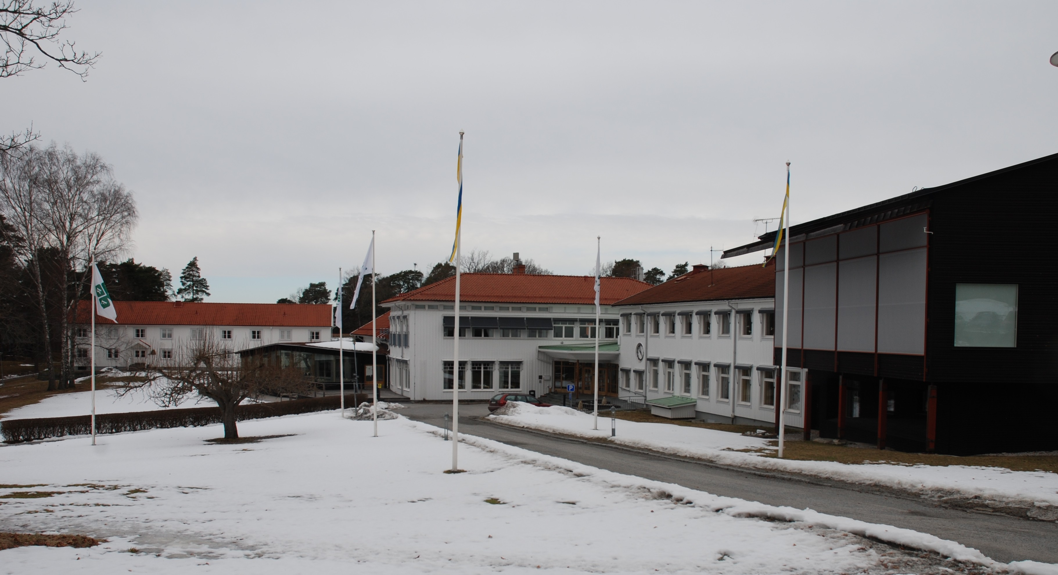 Sånga Säby Kurs & Konferens, Ekerö, Sweden